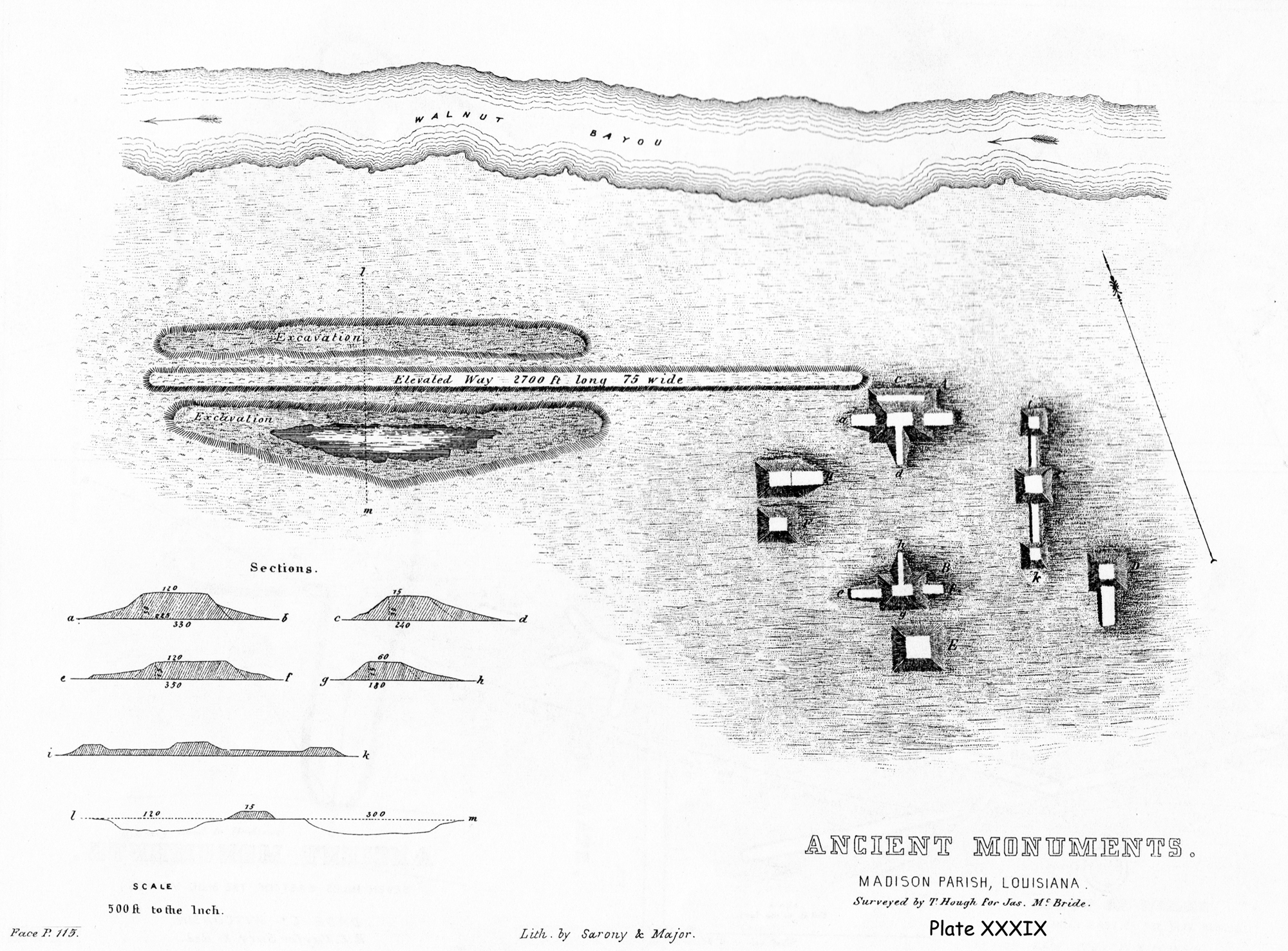 Plate XXXIX from Ancient Monuments of the Mississippi Valley depicting the Fitzhugh Mounds site in Madison Parish, Louisiana.[1]